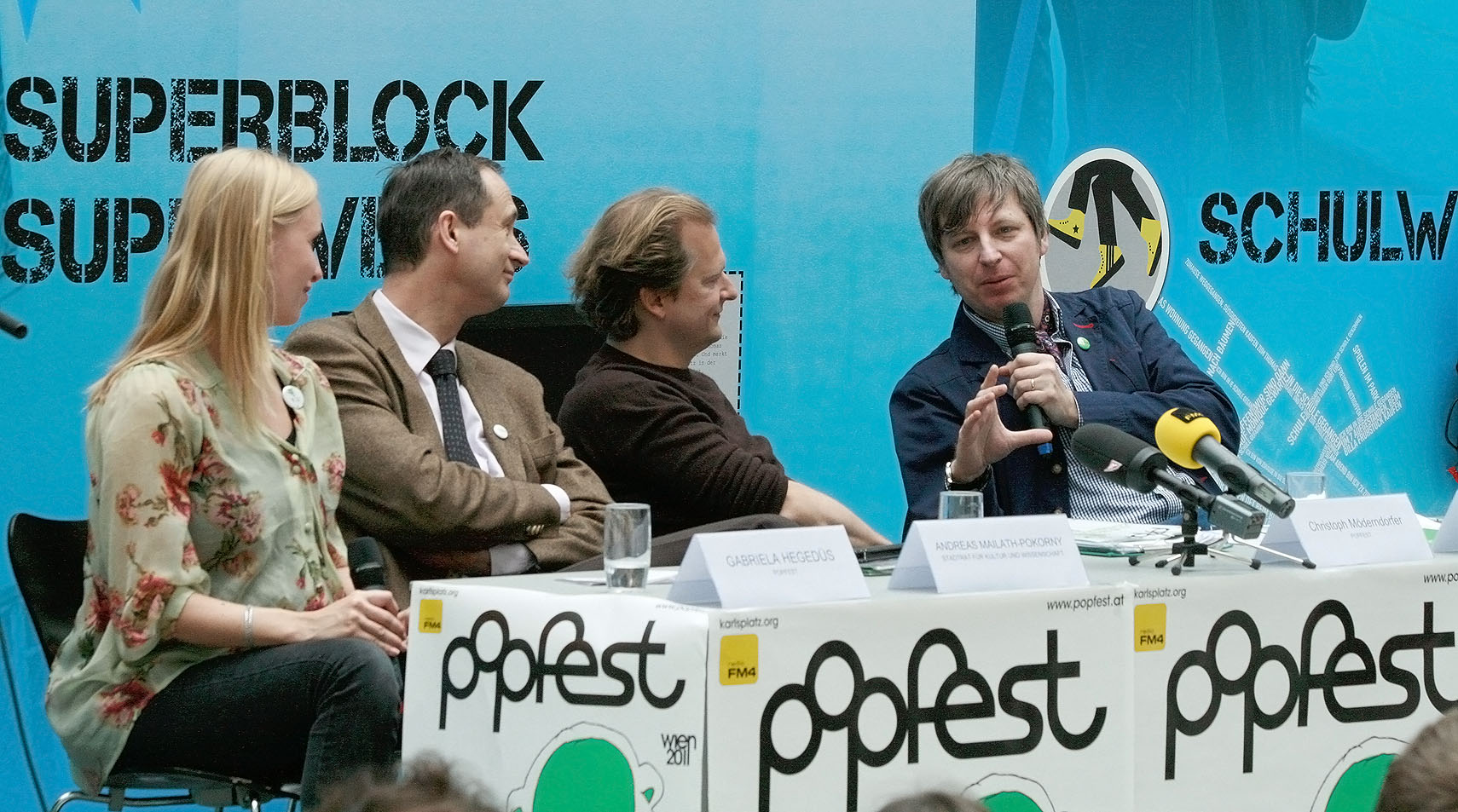 Gabriela Hegedüs, Andreas Mailath-PokornyChristoph Möderndorfer and Robert Rotifer at the press conference for the presentation of the program of the Popfest 2011 in Vienna (Vienna Museum).